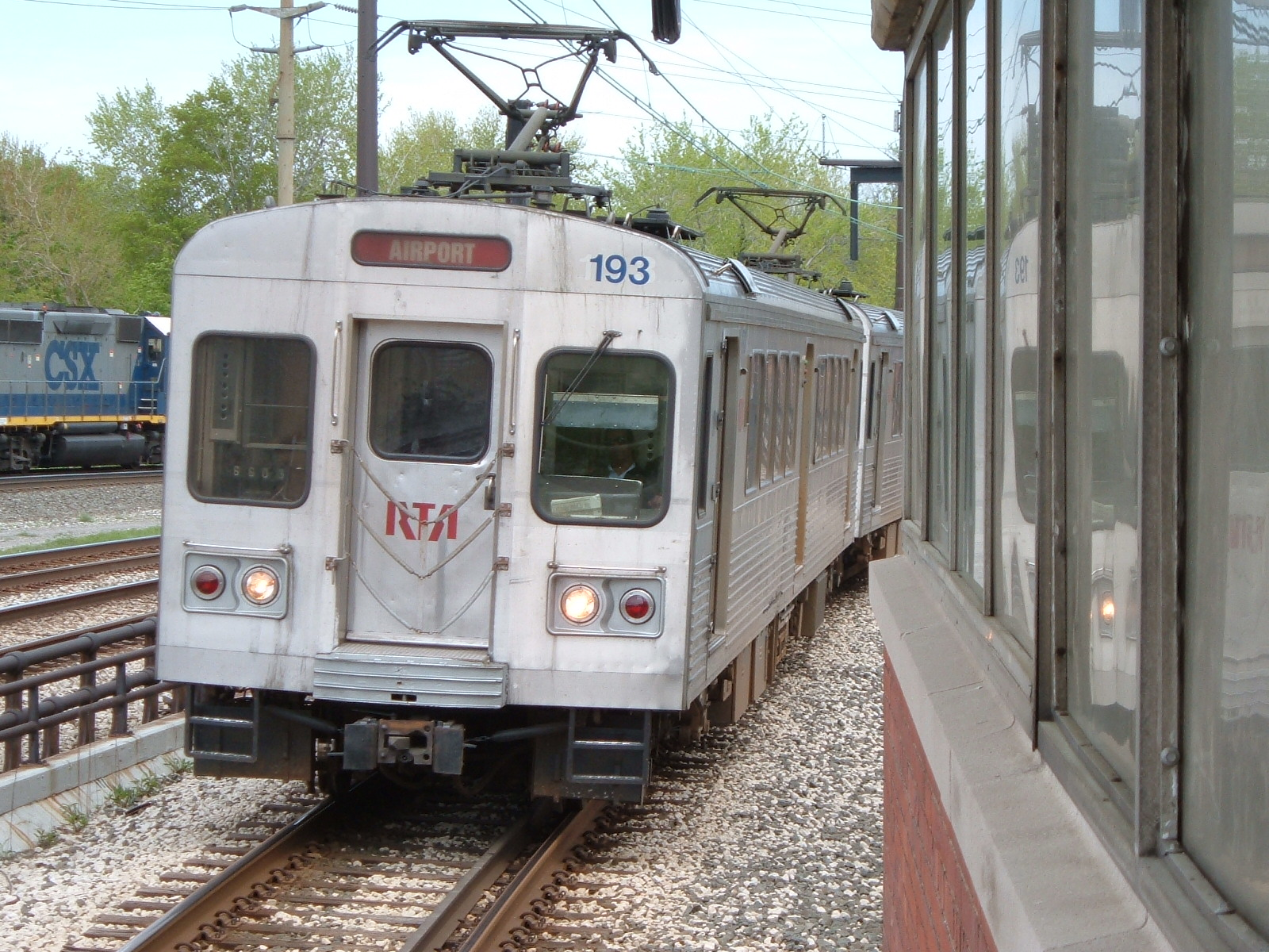 Tokyu Car at Euclid-East 120th